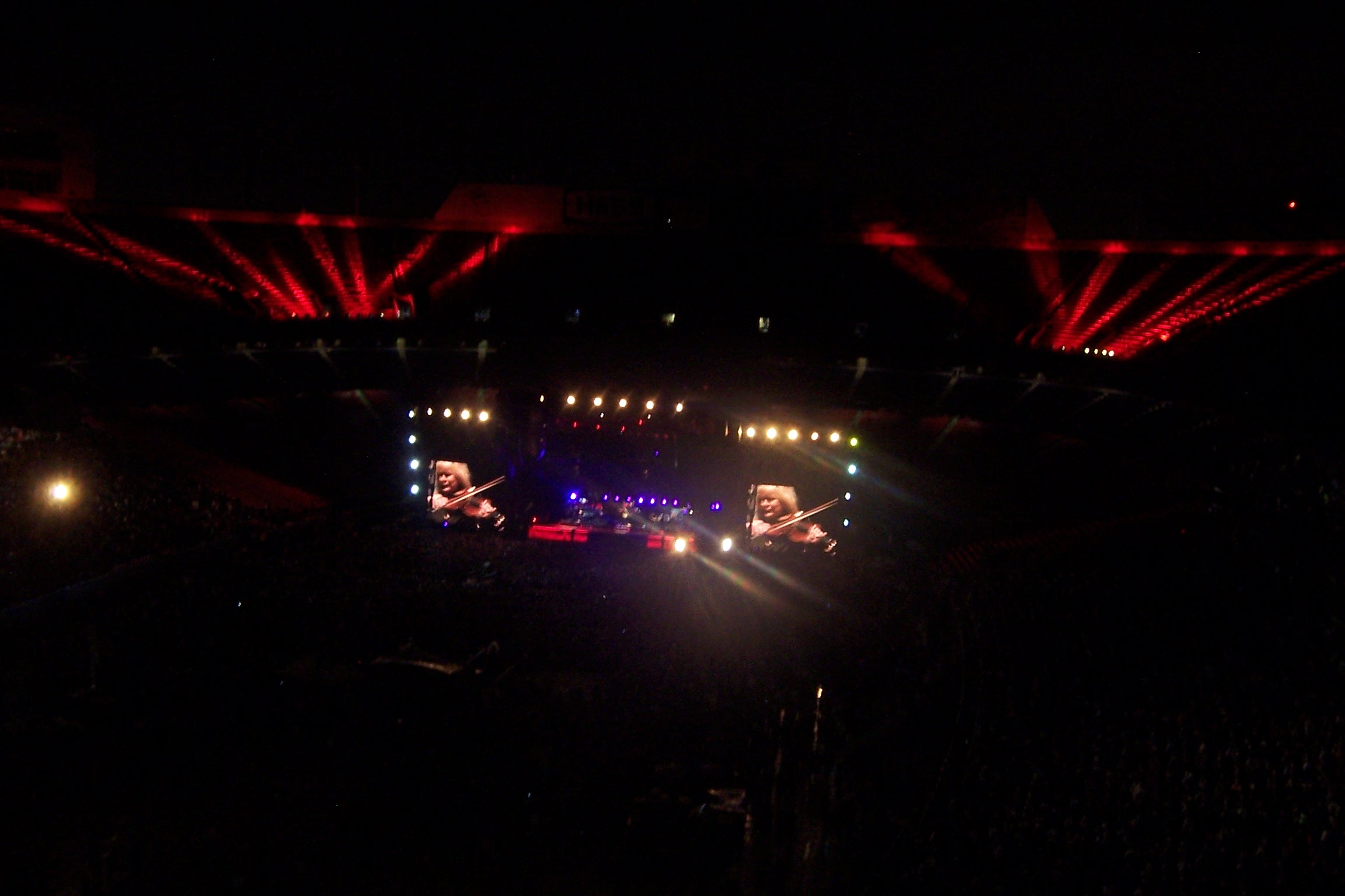 Bruce Springsteen and the E Street Band performing "The Rising" at Giants Stadium in New Jersey, during the middle of the song